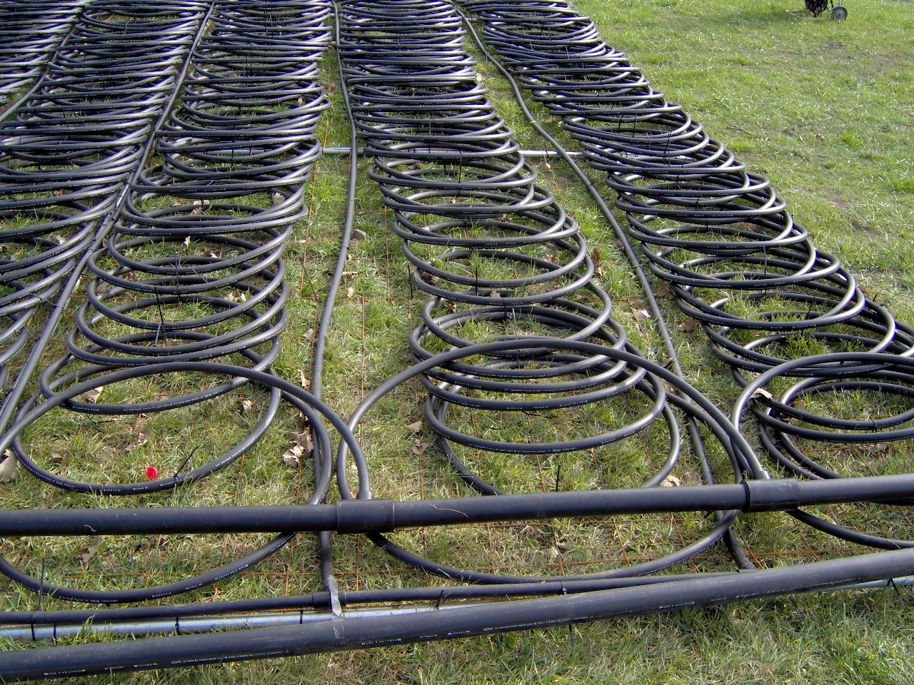 Ground-coupled heat exchanger of a heat pump: loop field for a 12-ton system.